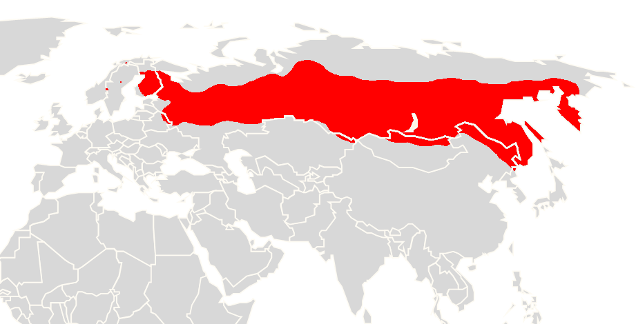 Taiga Shrew (Sorex isodon), range map, depending on the range map at IUCN red list